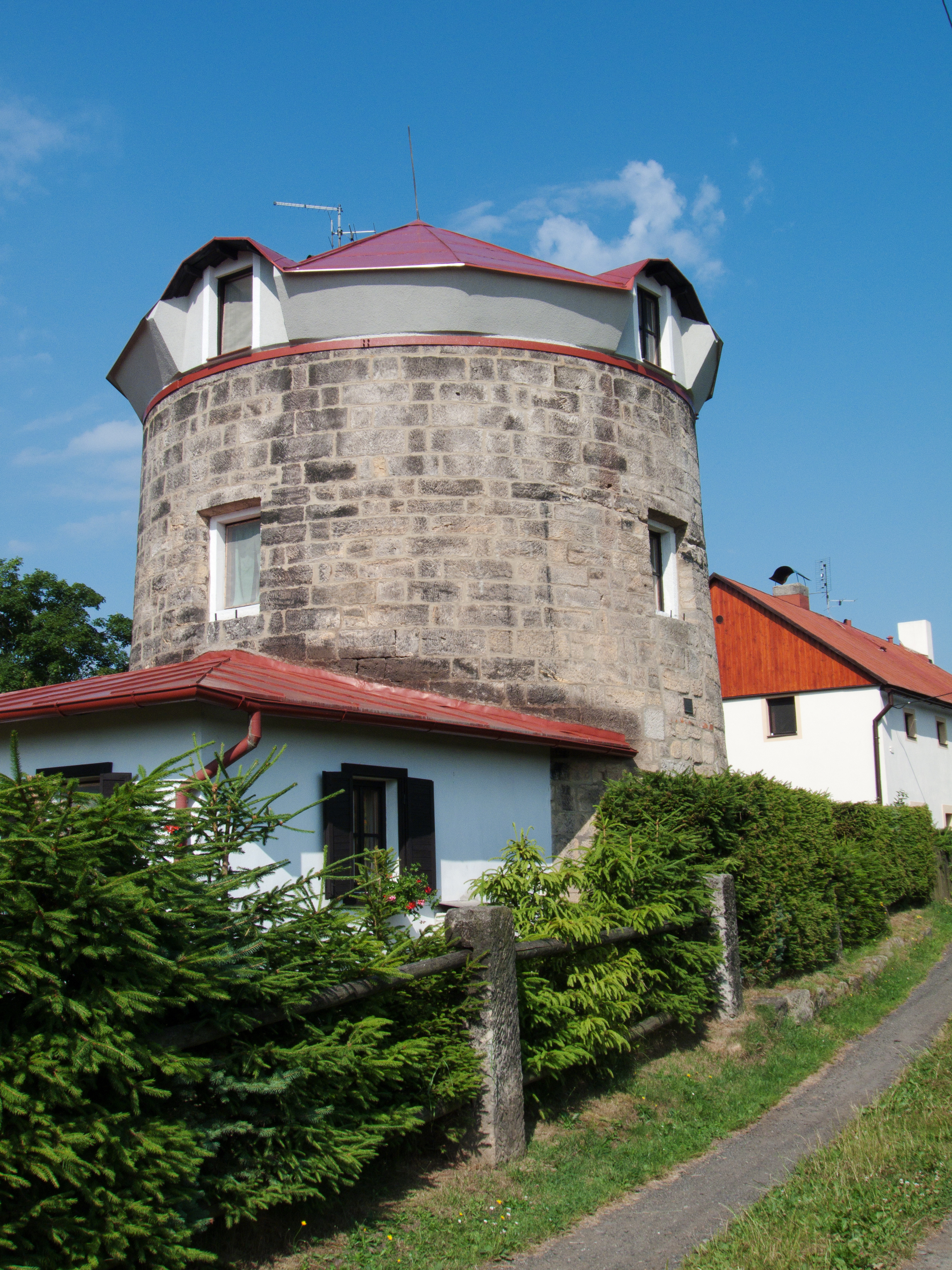 Former windmill in the village of Arnoltice, Děčín District, Czech Republic